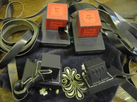 Tefillin with their protective red boxes